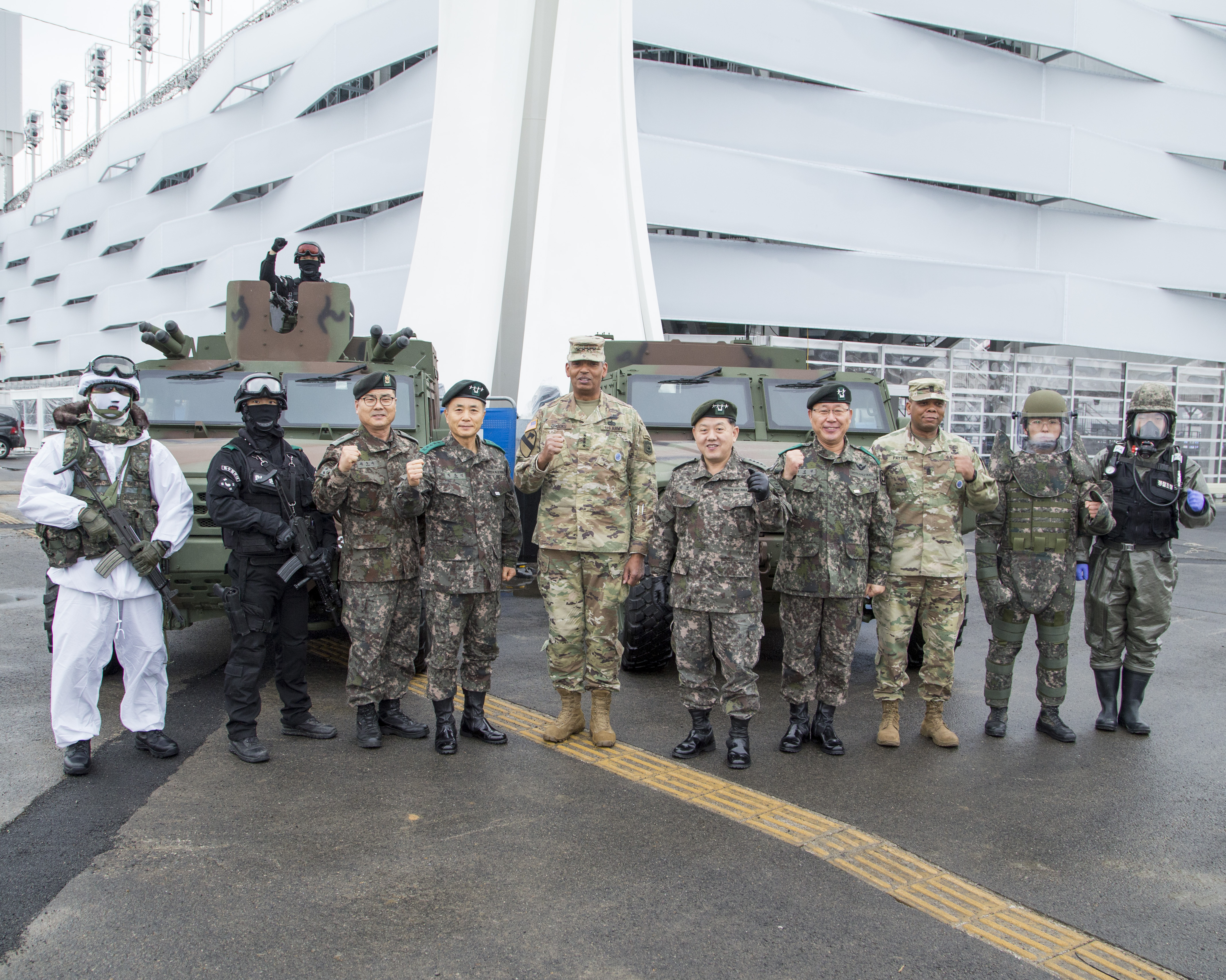 As the Winter Olympics 2018 rapidly approaches, Gen. Vincent K. Brooks, commanding general U.S. Forces Korea, Combined Forces Command, United Nations Command, met with the command and soldiers of the Republic of Korea 36th Division, at Olympic Stadium, PyeongChang, Korea, Jan. 17 Brooks visited members of the division, who are in charge of maintaining security at the Olympics, and had a walking tour of the stadium. (U.S. Army Photo by Staff Sgt. David Chapman, USFK)